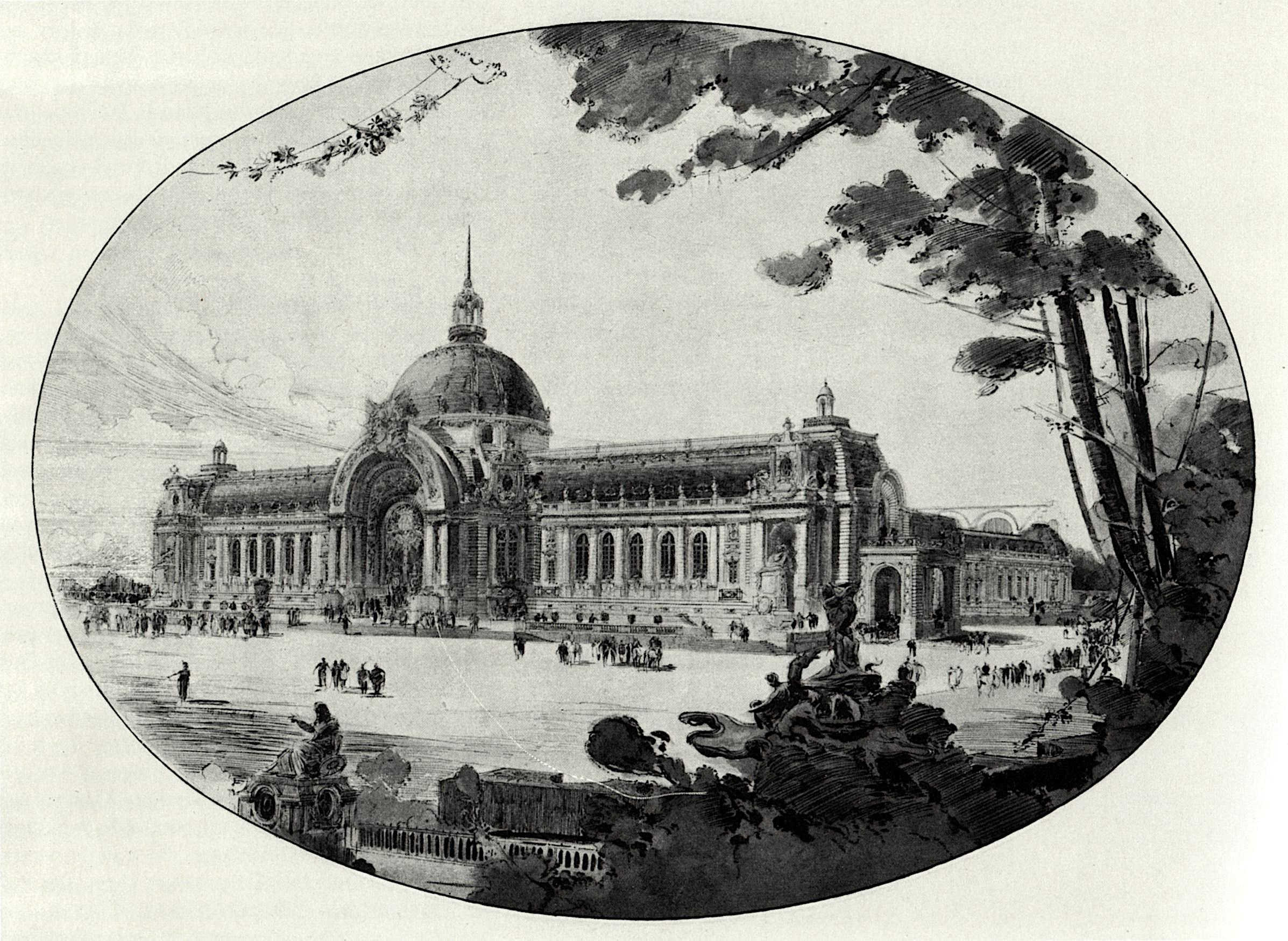 Competition design for the Peace Palace, The Hague.